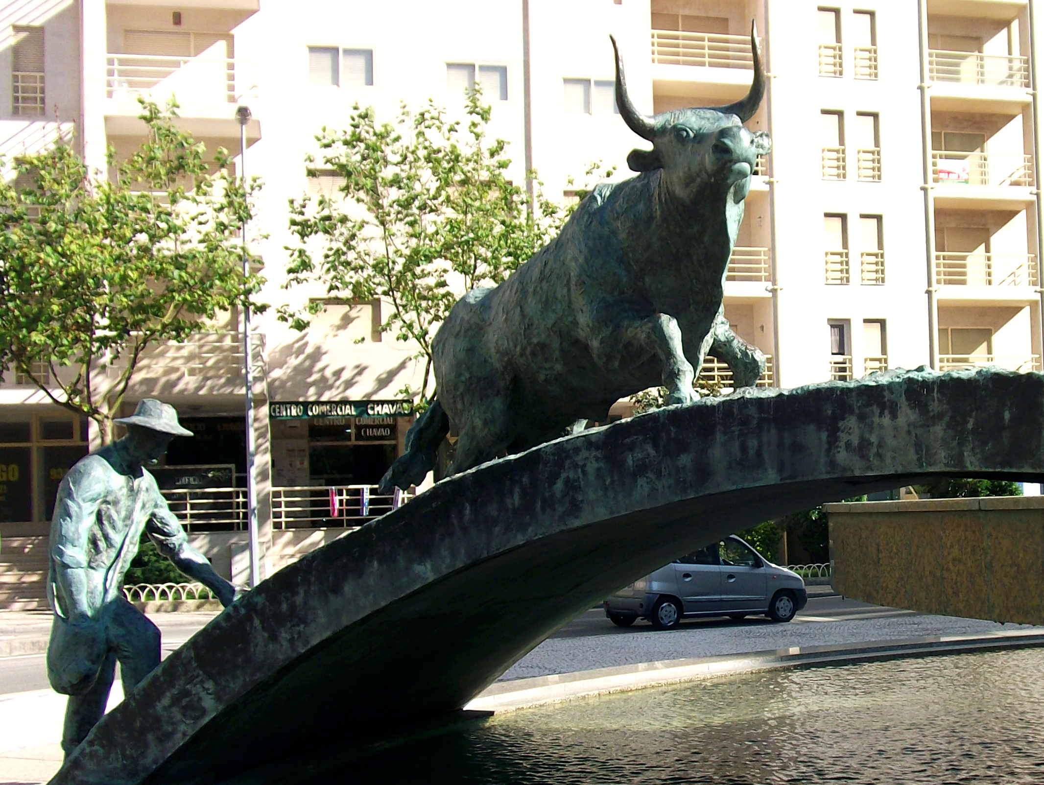 Touro sculpture, Povoa de Varzim Portugal